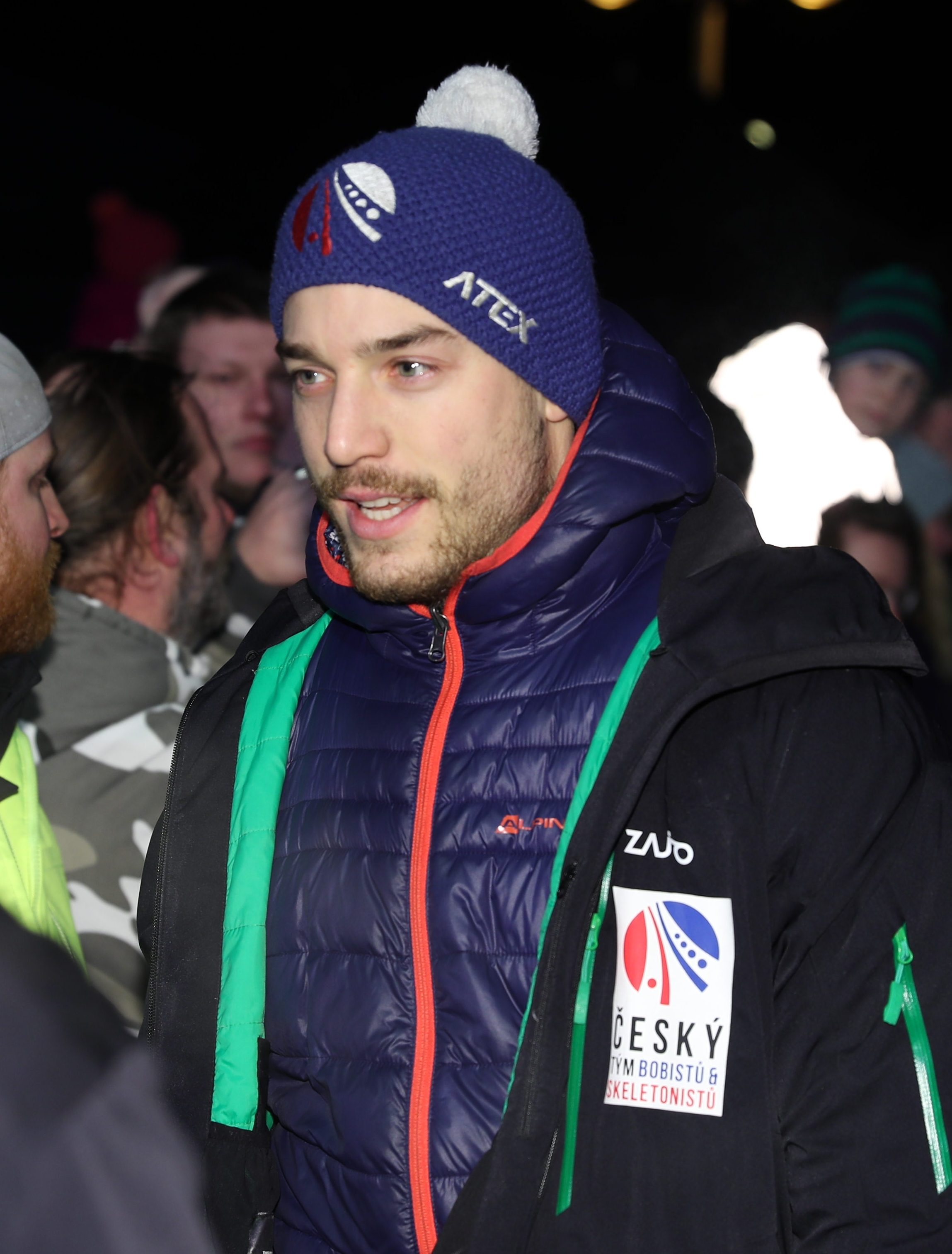 Opening Ceremony at the Bobsleigh and Skeleton World Championships 2020 in Altenberg